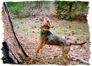 Randy Oller photo Leopard Cur